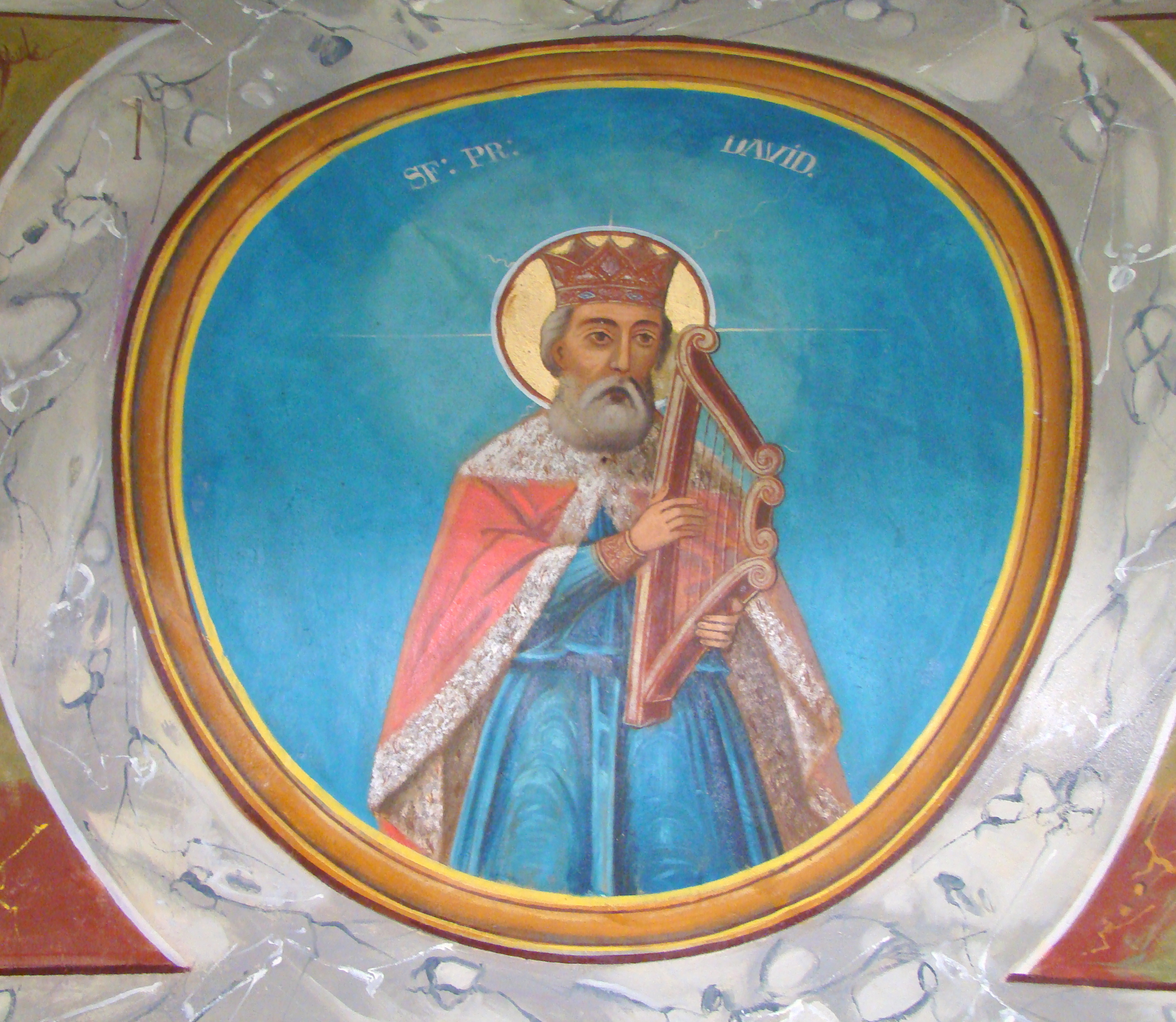 Wooden church in Milostea, Vâlcea county, Romania